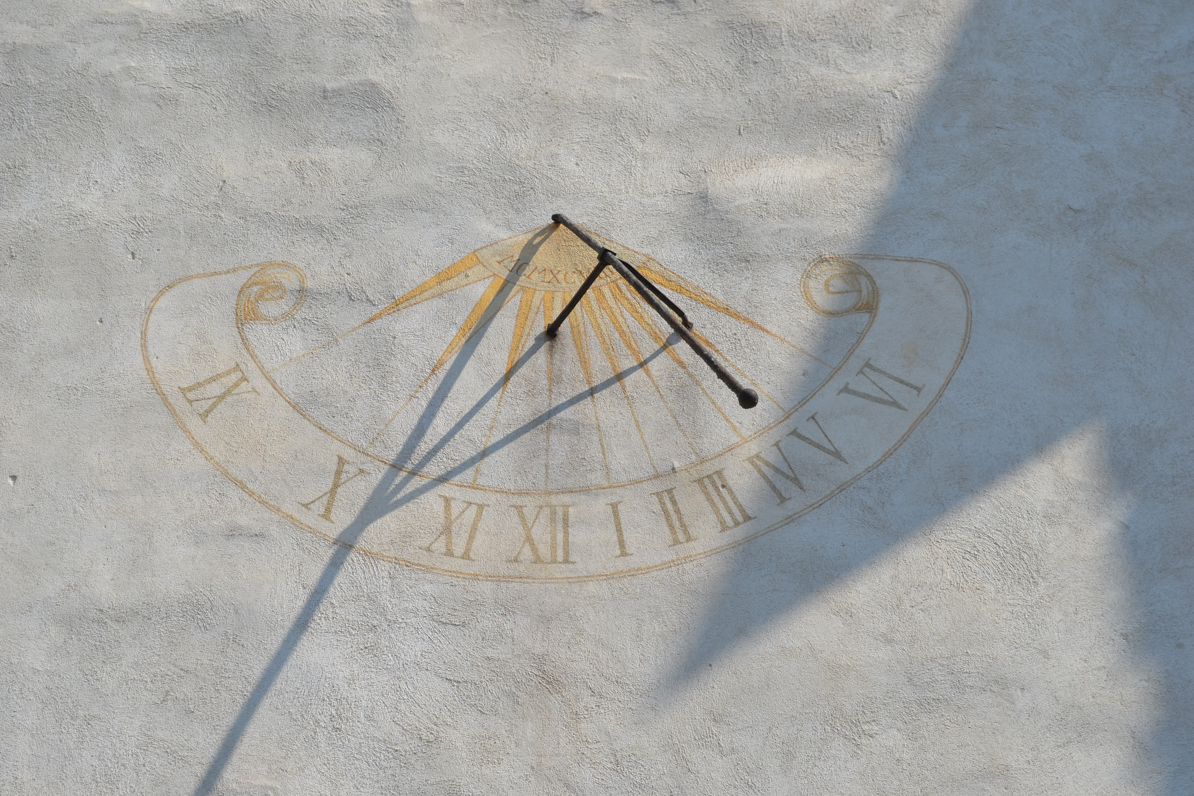 Sandial of urban tower in RožňavaSlovenčina: Slnečné hodiny na mestskej veži v Rožňave